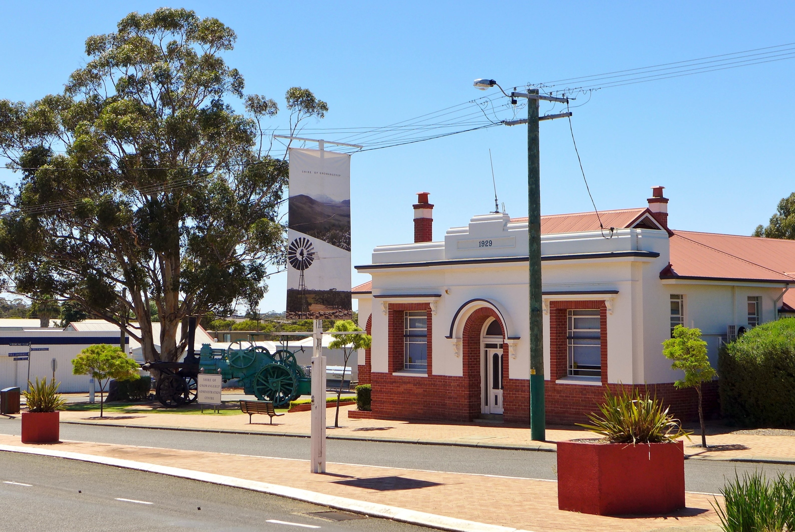 View of the shire offices in Yougenup Road, Gnowangerup, Western Australia